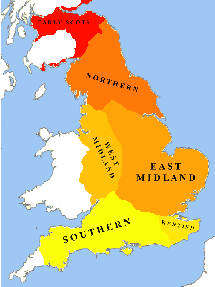 This image shows the dialects of Middle English around the year 1300. The Mercian dialect has split into East and West Midland dialects, while the Northumbrian dialect has become the Northern dialect in England and Early Scots in Scotland. The English of London developed mainly from the East Midland dialect, with influences from Southern and Kentish dialects as well as Norman French.